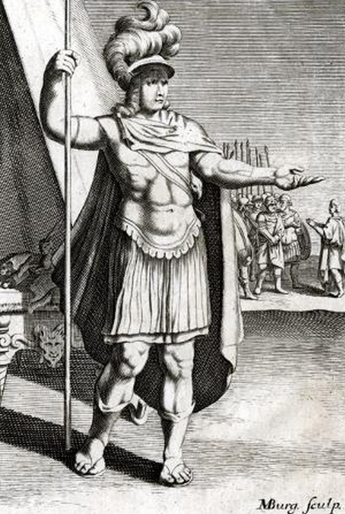 Eumenes of Cardia